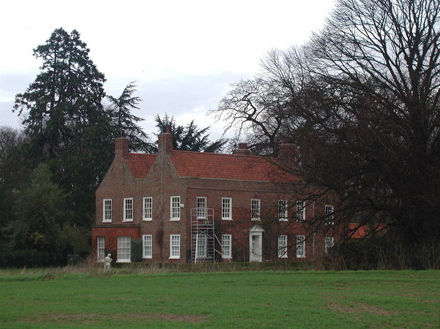 Boreas Hall, Paull, East Riding of Yorkshire, England.Looking north-northeast from Boreas Hill just north of Dark Lane, Paull. Formerly Boar House or Bower House, its grounds once extended to 300 acres. Boreas Hill is one of the highest points for many miles around, although you couldn't really call it high. The top of South Hill (the southern part of Boreas) reaches a giddy sixteen metres above sea level.